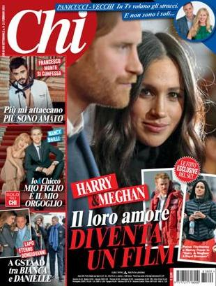 Cover of Chi magazine, 21 feb. 2018. Arnoldo Mondadori Editore, Mondadori Group.